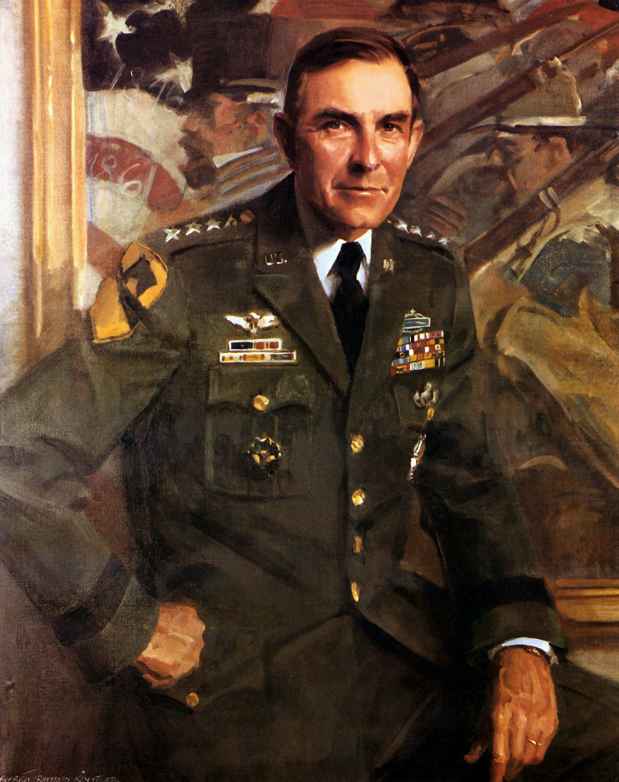 Portrait of General Edward C. Meyer by Everett Raymond Kinstler reproduced from the Army Art Collection.